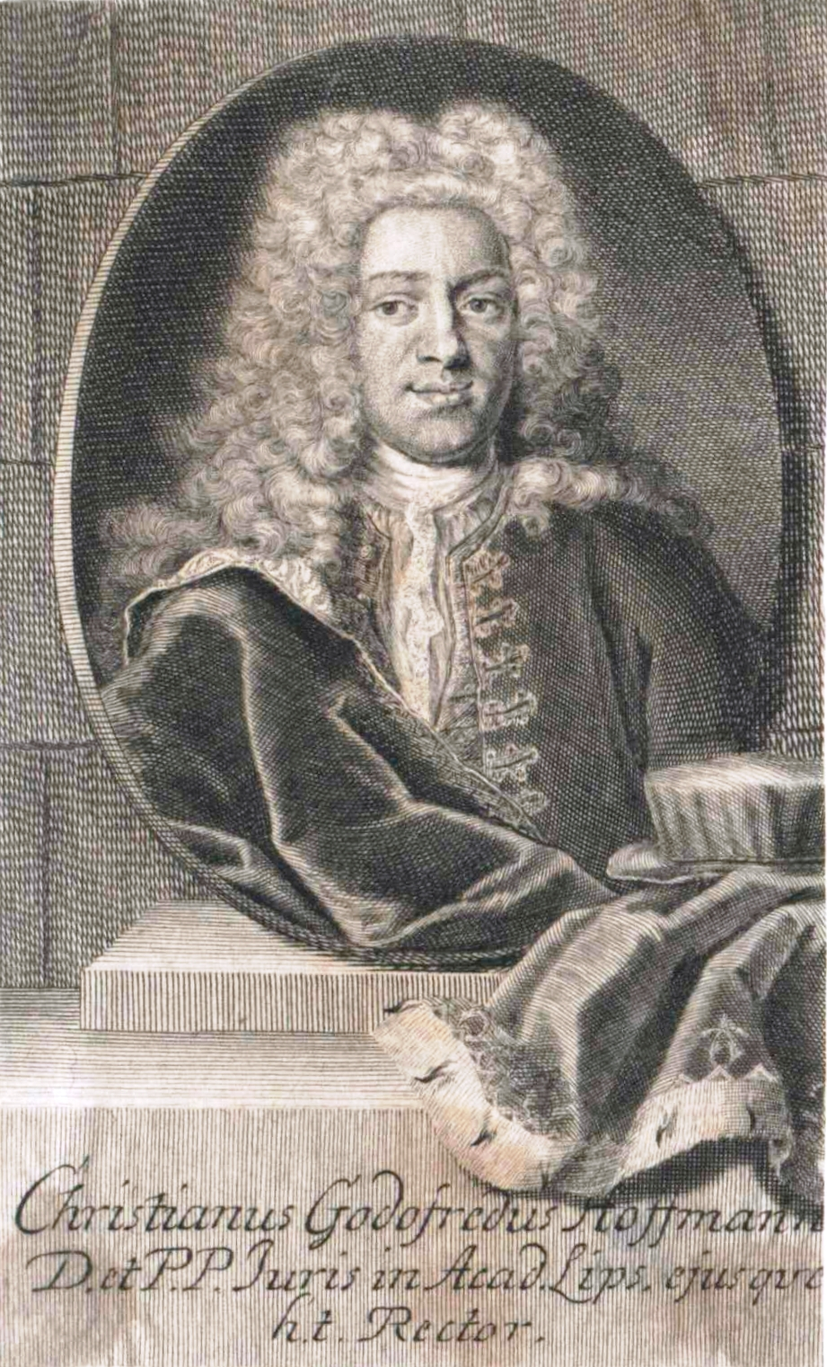 Christian Gottfried Hoffmann (1692-1735) Jurist and Historian from Germany